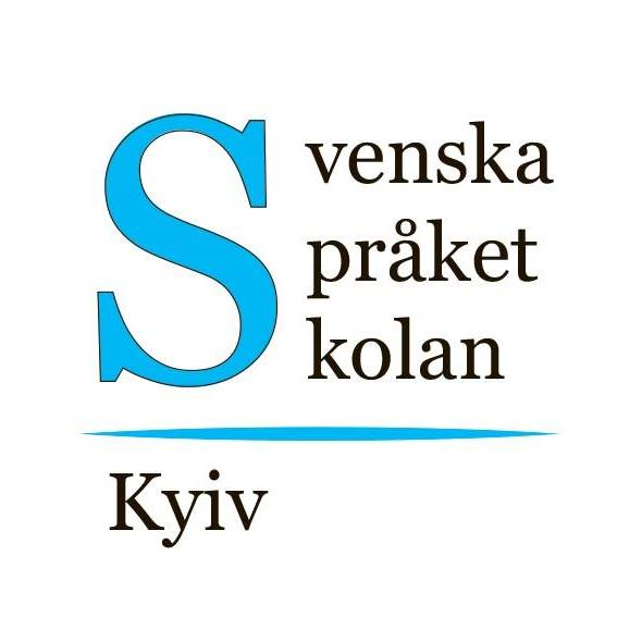 logo of Swedish Language School - Kyiv